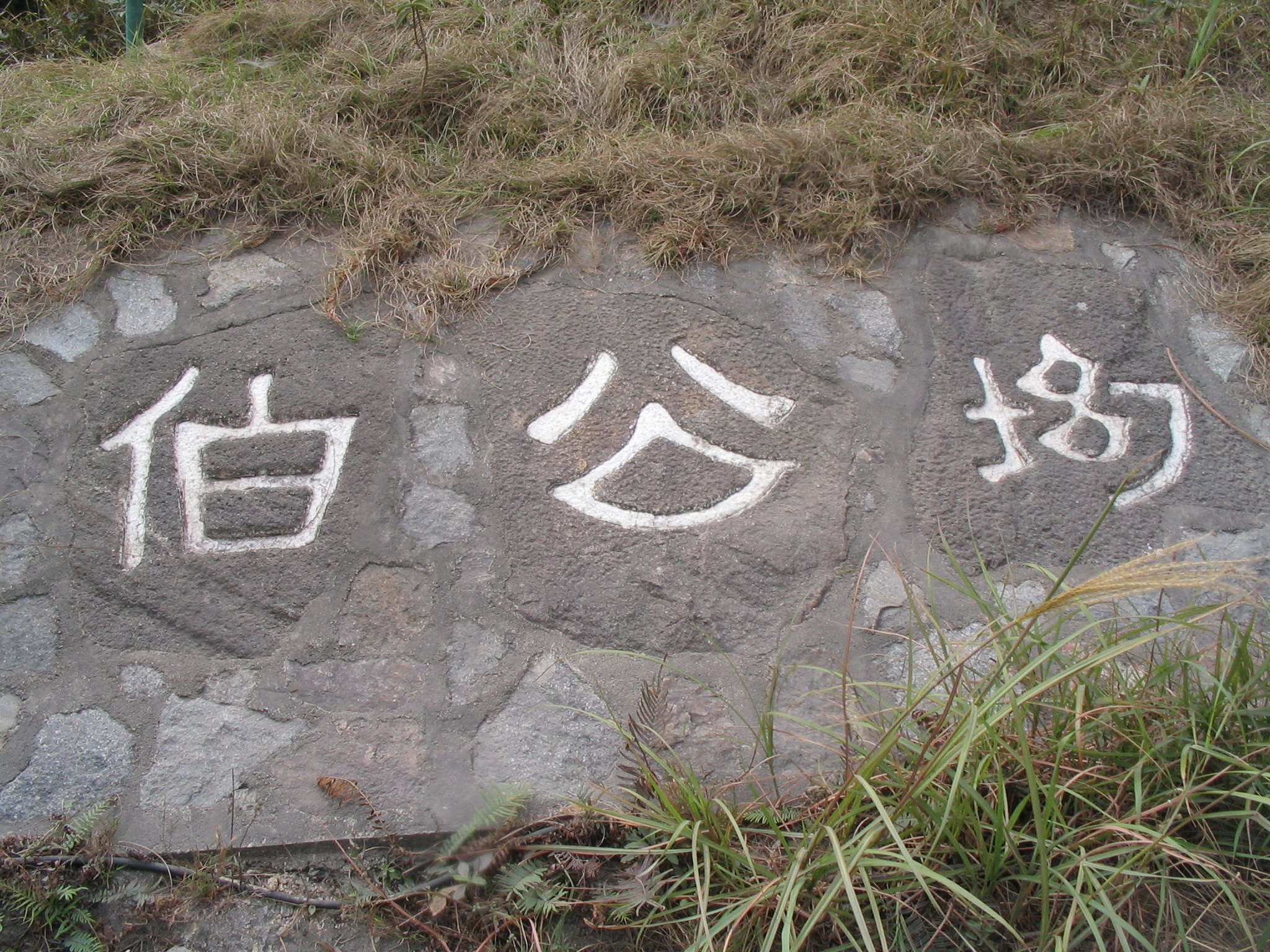 Photo of Pak Kung Au